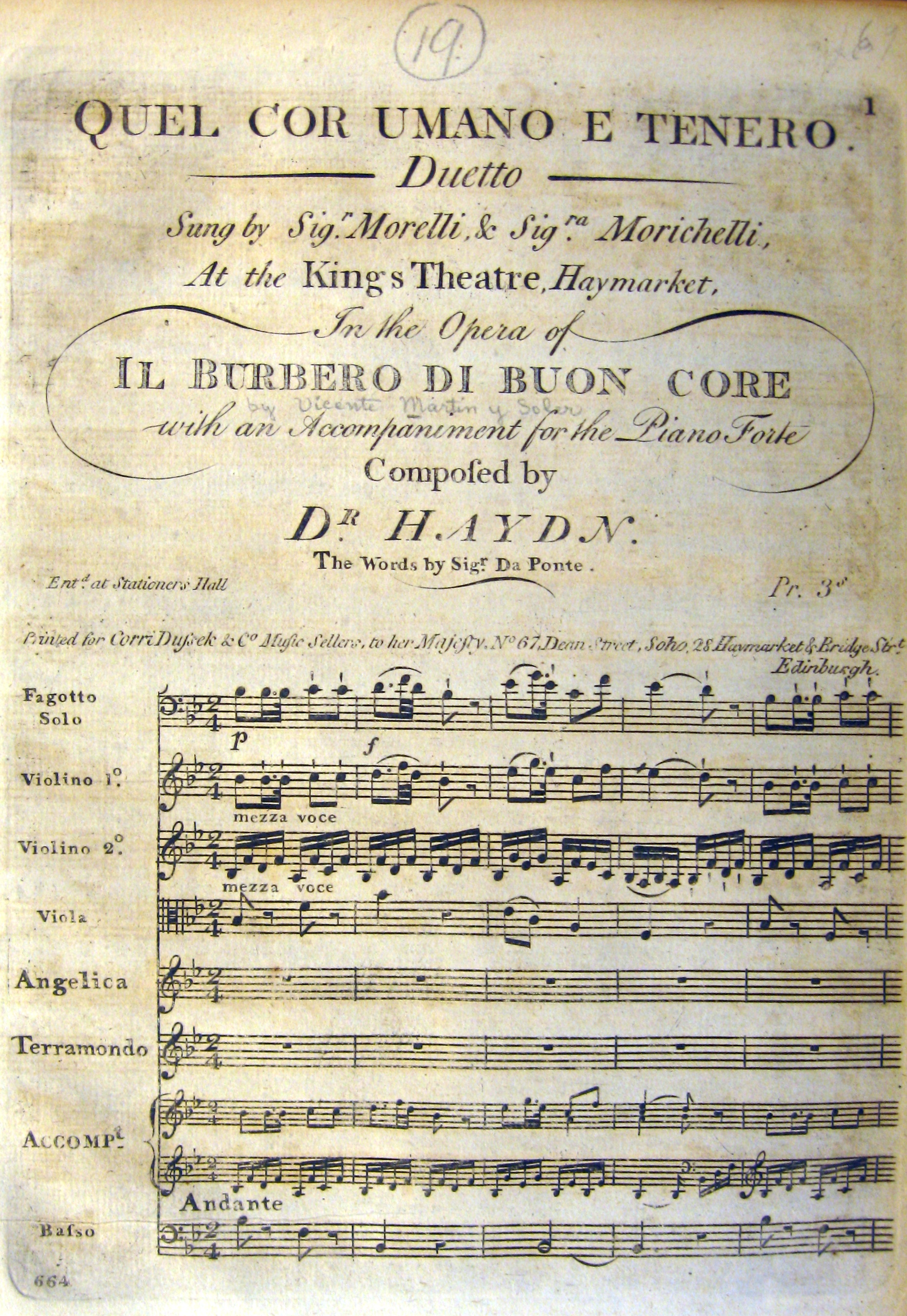 Insertion duet composed by Joseph Haydn, words by Lorenzo Da Ponte, performed in Vicente Martin y Soler's 1786 opera Il burbero di buon cuore is actually an adaptation of Haydn's duet "Quel tuo visetto amabile" from his 1782 opera Orlando paladino.